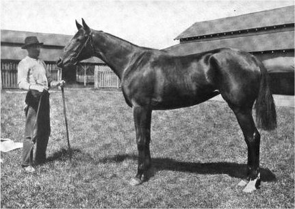 Thoroughbred filly, Caps and Bells, that won the Epsom Oaks in 1902.